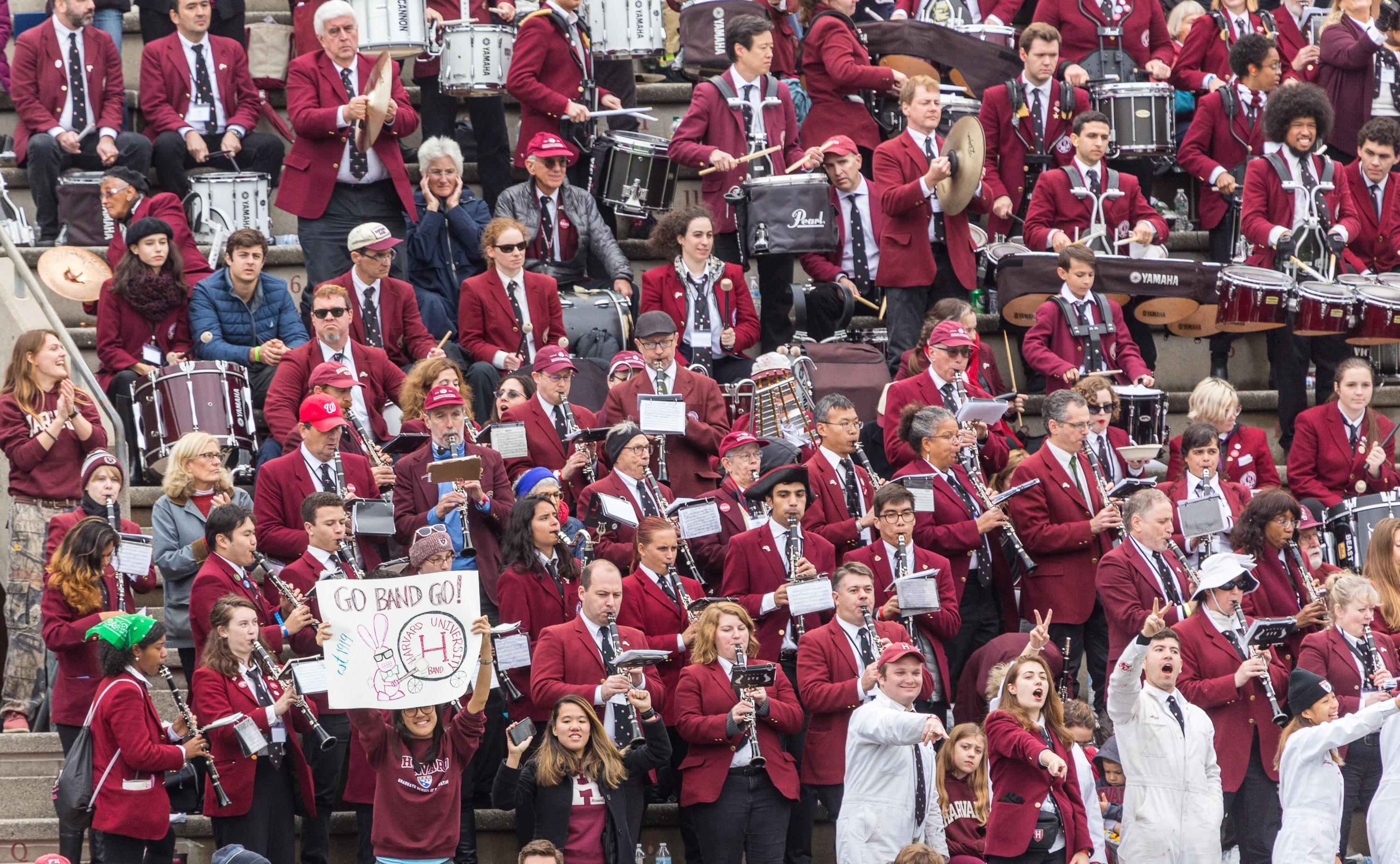 Harvard University Band and alumni come together to celebrate the 100th anniversary of the Harvard University Band, October 12, 2019, at Harvard Stadium.